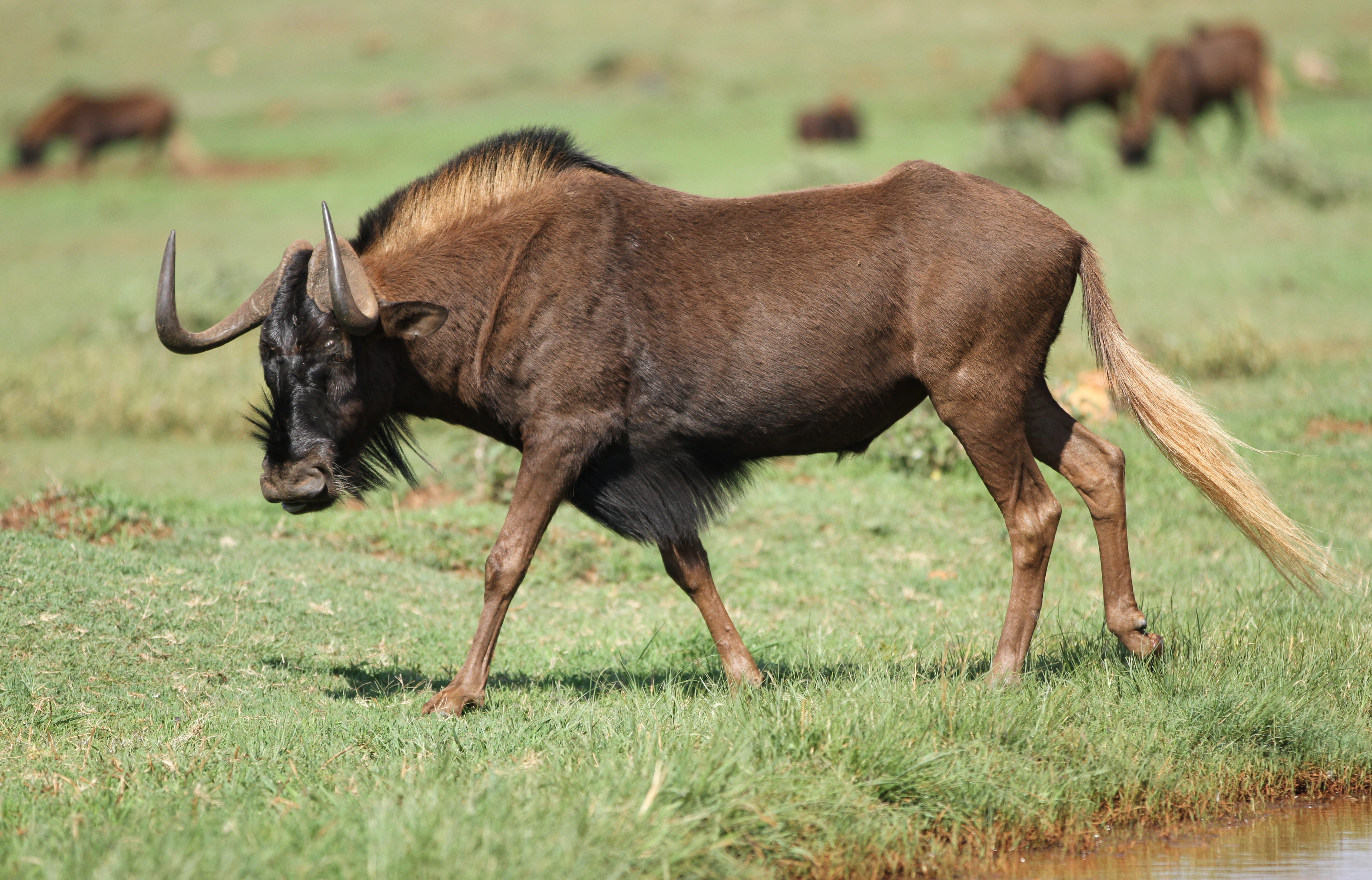 Black wildebeest, or white-tailed gnu, Connochaetes gnou at Krugersdorp Game Reserve, Gauteng, South Africa